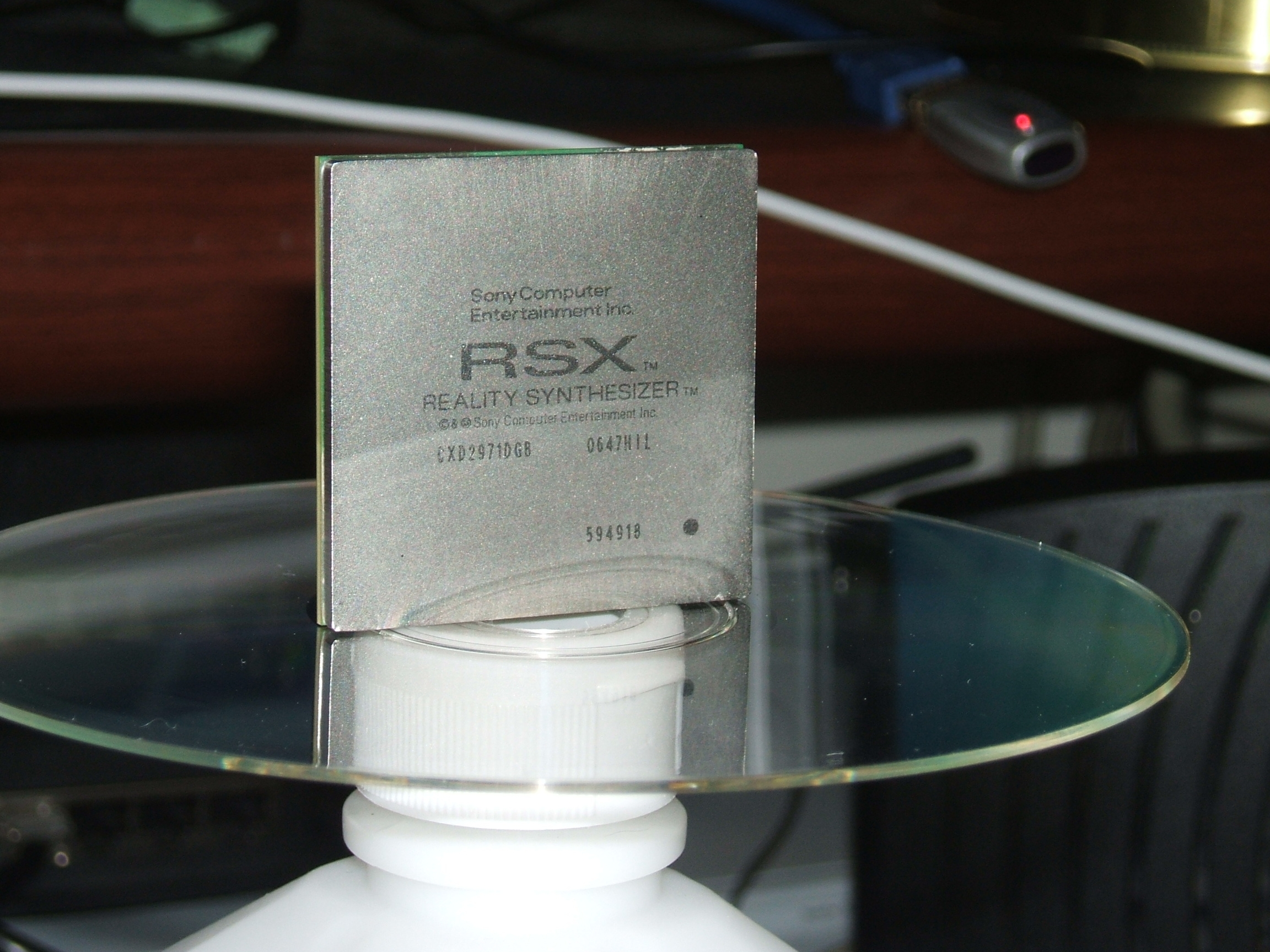 A Sony RSX Reality Synthesizer as a bare chip, on a compact disc sized blank. A starting point for finding a better photo for the English Wikipedia article.